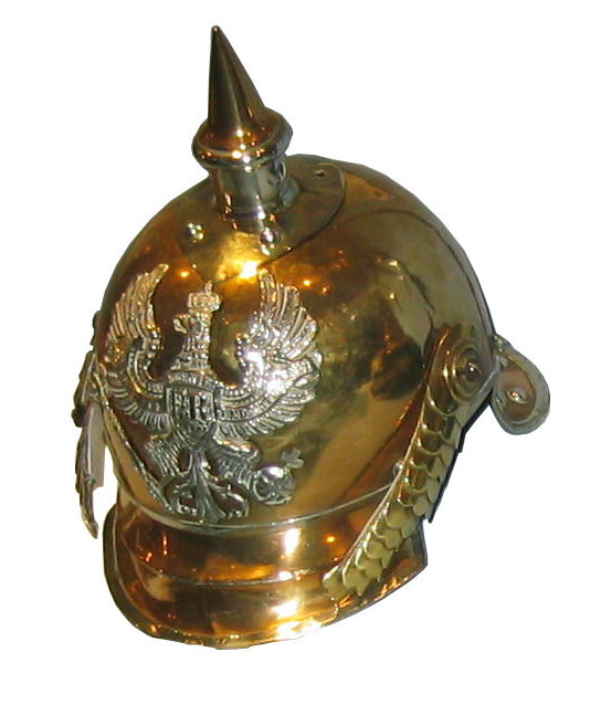 German cuirrassier's helmet (in coll. Mémorial de Verdun)